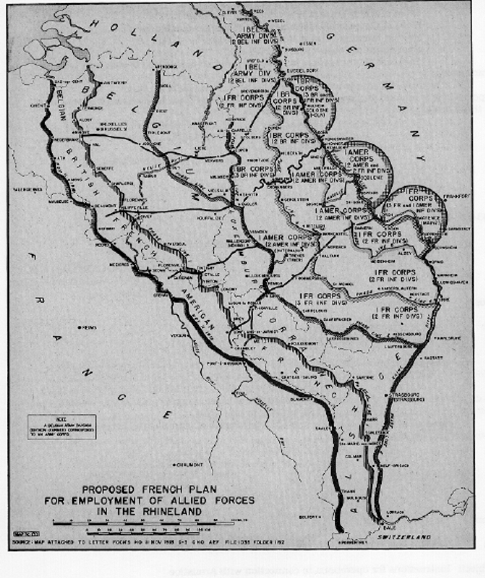 Proposed French Plan For Employment Of Allied Forces In The Rhineland